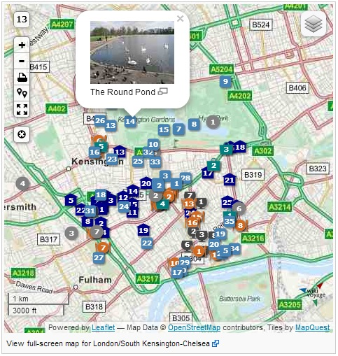 Screenshot of the dynamic map on the English Wikivoyage guide for South Kensington & Chelsea. One point of interest has been selected, show the pop-up information.